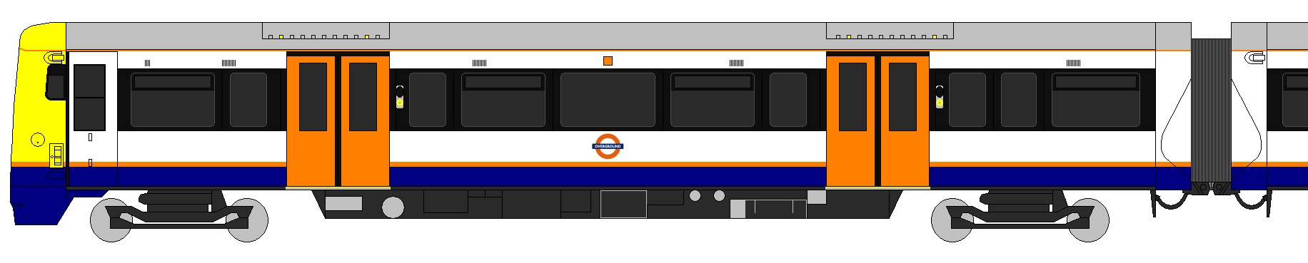 A detail of a diagram of a London Overground Class 378 Electrostar. London Overground logo is fair use to properly illustrate the train livery.